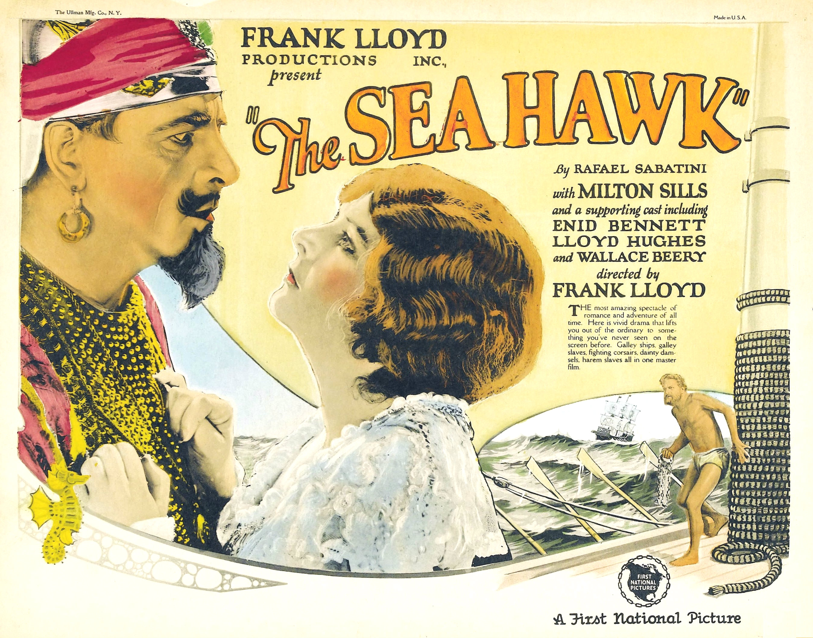 Lobby card for the American adventure film The Sea Hawk (1924).